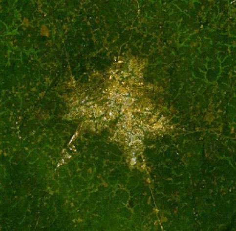 Screenshot from World Wind software displaying NASA Landsat imagery. The website says "The Landsat Global Mosaic, Blue Marble, and the USGS raster maps and images are all Public Domain." (